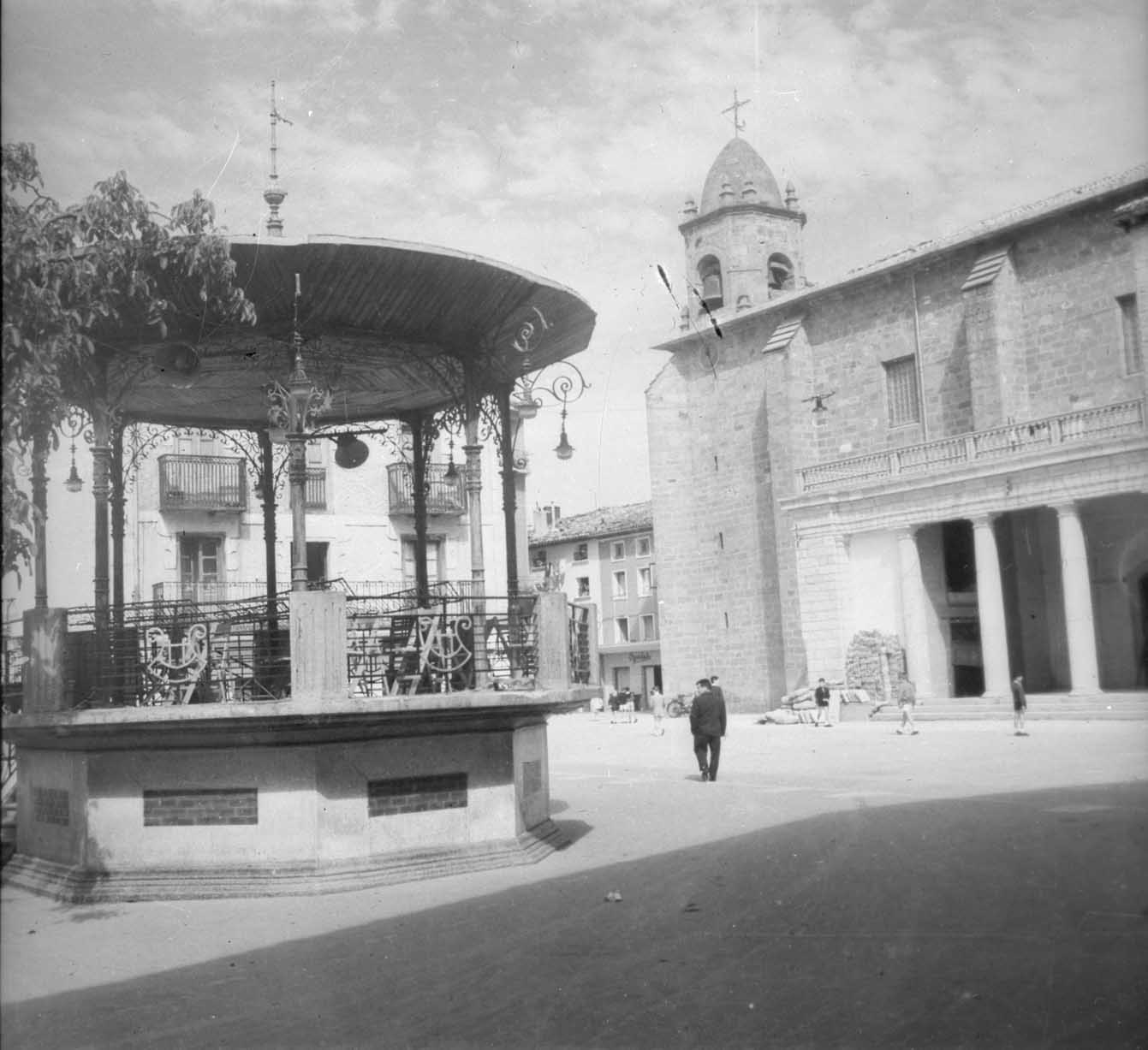 Altsasu square, church and kiosk